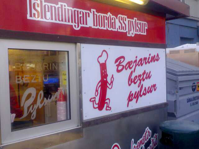 Bæjarins Beztu Pylsur, known as the best hot dog stand in Reykjavik.